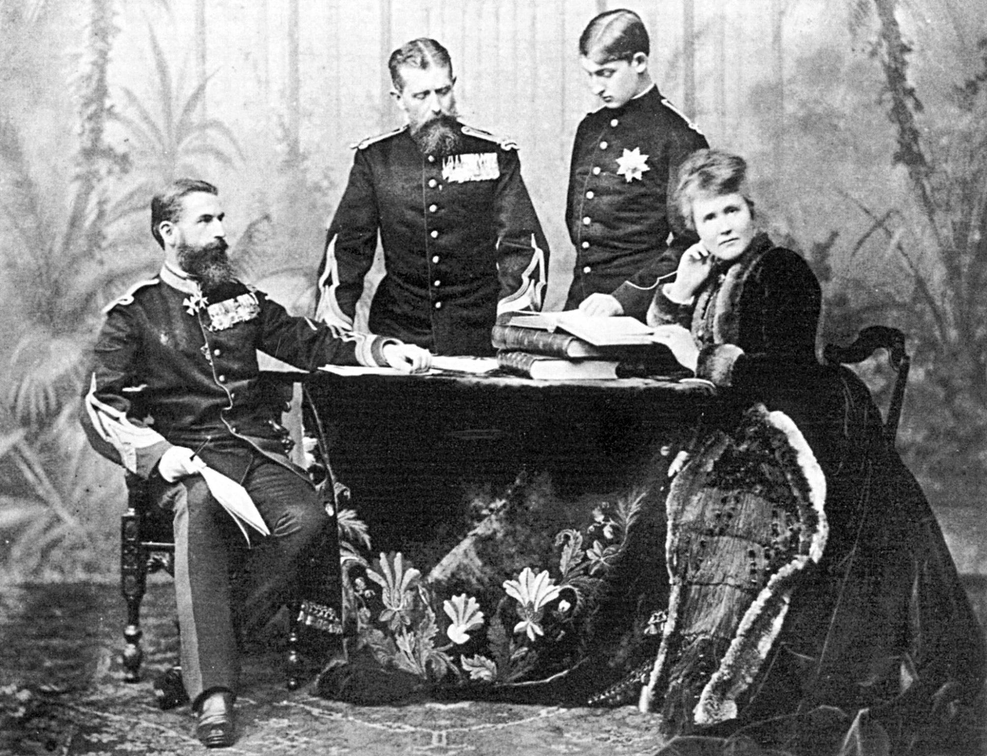 King Carol I of Romania with his older brother Leopold - Prince of Hohenzollern, Ferdinand (Leopold's son) - heir to Romania's throne, and Queen Elisabeth, 1889